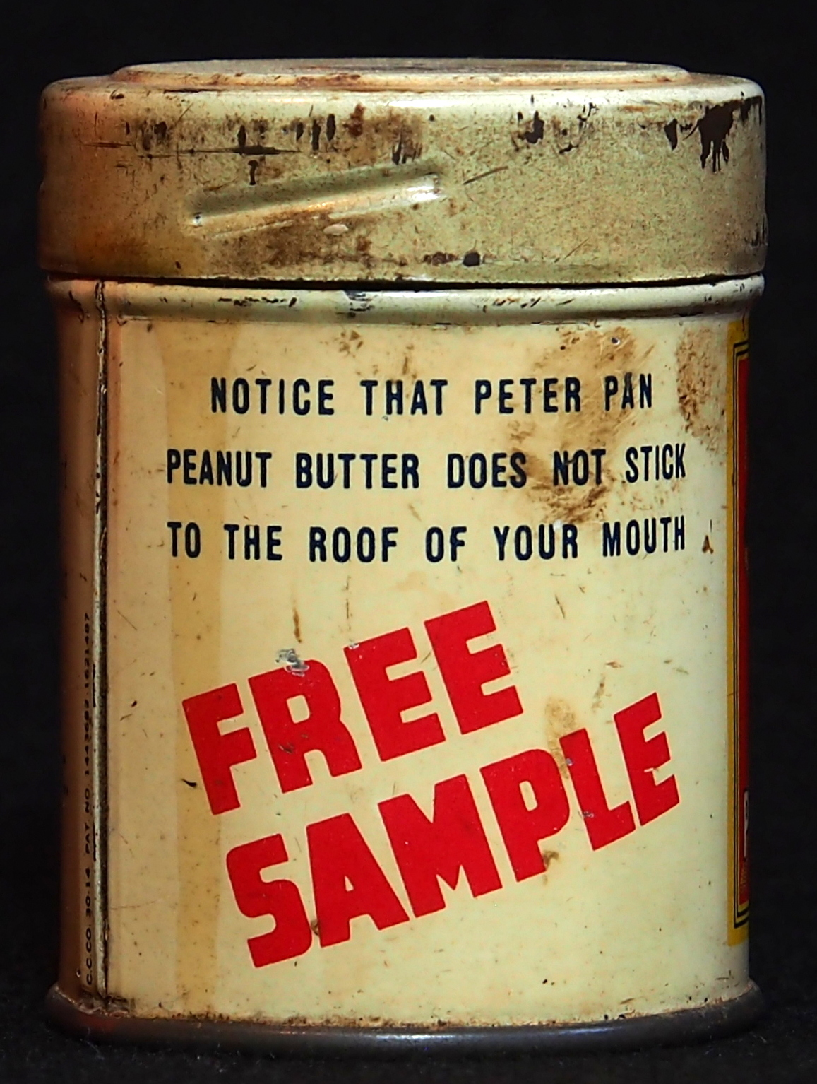 Peter Pan peanut butter sample can, boldly labeled "FREE SAMPLE" in red letters and promising "Peter Pan peanut butter does not stick to the roof of your mouth." Photographed at a collector of Droste memorabilia and old tin cans. For more info see tincollectors.nl or